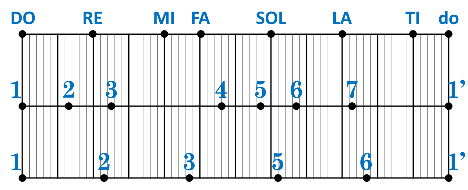 Based on Music, Language, and the Brain, by Aniruddh D. Patel (Oxford University Press, 2008), page 19, available on Questia. The figure in Patel's book is itself adapted from Sutton 2001. Top row shows the Western equal temperament notes; each vertical line marks a difference of 5 Cents. Middle row shows the location of notes in the Javanese pelog scale. Bottom row shows the location of notes in the Javanese slendro scale.